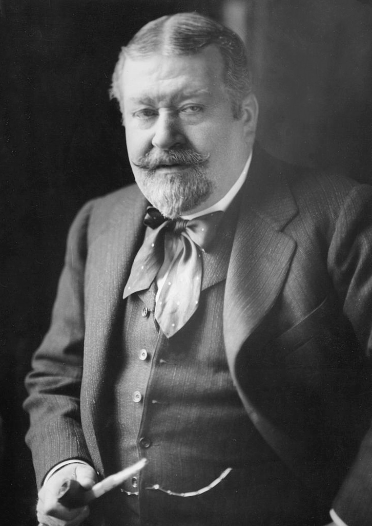 Journalist George Robert Sims (1847 - 1922), circa 1910.